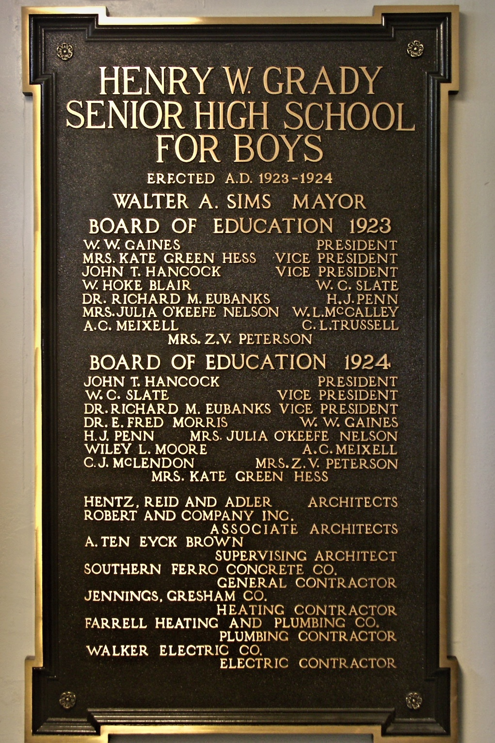 Dedicatory Plaque from 1924 in an entry vestibule at Henry W. Grady High School, Atlanta, GA. Photo taken during the 50th Class Reunion celebration of the Class of 1956! Proves that "Grady" was part of the school name by no later than 1924, and did not become part of the name in 1947.